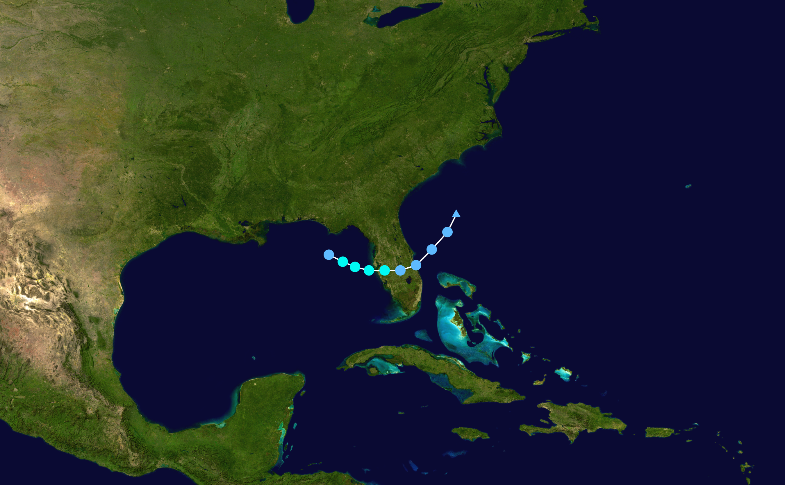 Track map of Tropical Storm Emily of the 2017 Atlantic hurricane season. The points show the location of the storm at 6-hour intervals. The colour represents the storm's maximum sustained wind speeds as classified in the Saffir–Simpson scale (see below), and the shape of the data points represent the nature of the storm, according to the legend below. Saffir–Simpson scale Tropical depression≤38 mph≤62 km/h Category 3111–129 mph178–208 km/h Tropical storm39–73 mph63–118 km/h Category 4130–156 mph209–251 km/h Category 174–95 mph119–153 km/h Category 5≥157 mph≥252 km/h Category 296–110 mph154–177 km/h Unknown Storm type Tropical cyclone Subtropical cyclone Extratropical cyclone / Remnant low / Tropical disturbance / Monsoon depression